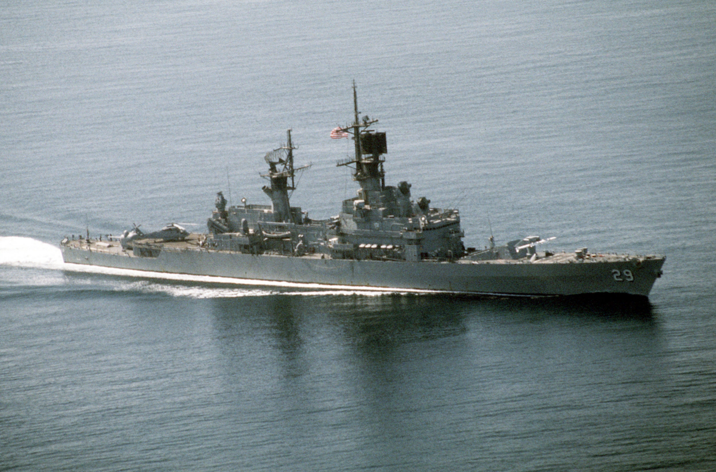 The U.S. Navy guided missile cruiser USS Jouett (CG-29) underway in the Persian Gulf area, in 1992.